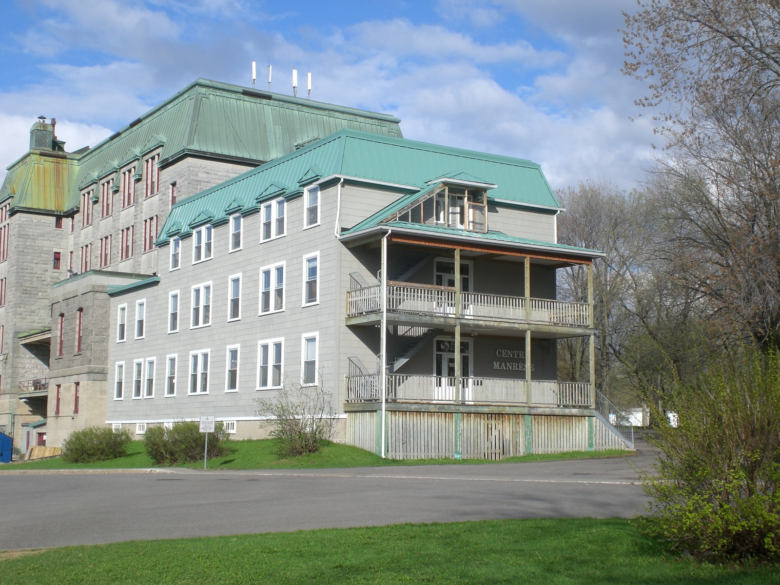 Photo of the front of the Manresa Centre. In the background is Collège Saint-Charles-Garnier